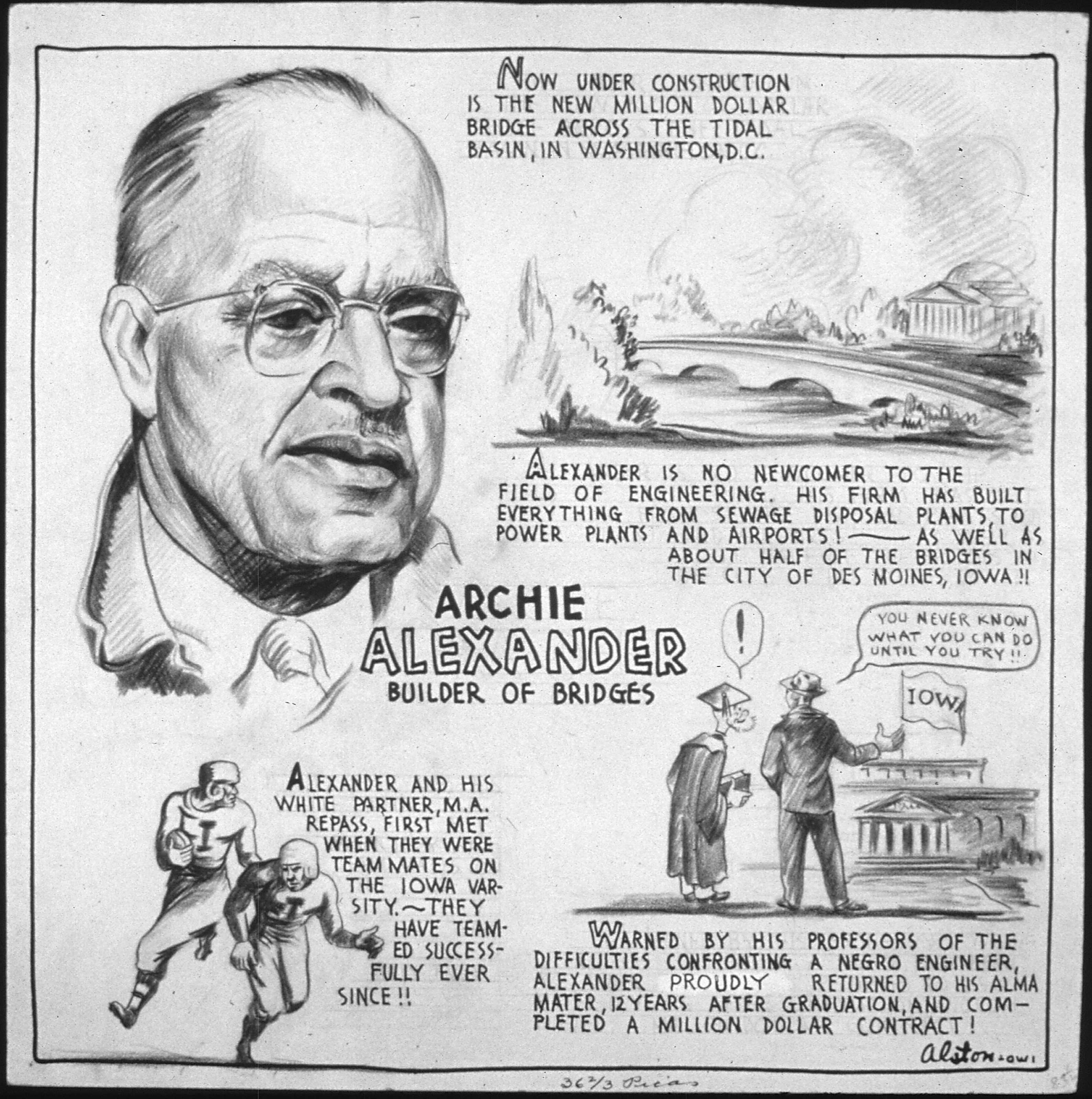 Scope and content: Archie Alexander - with biographical paragraphs.